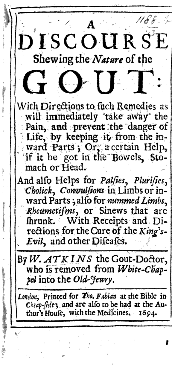 William Atkins' A Discourse Shewing the Nature of the Gout (1694), in which the quack author presents his cure for gout, among other ailments.